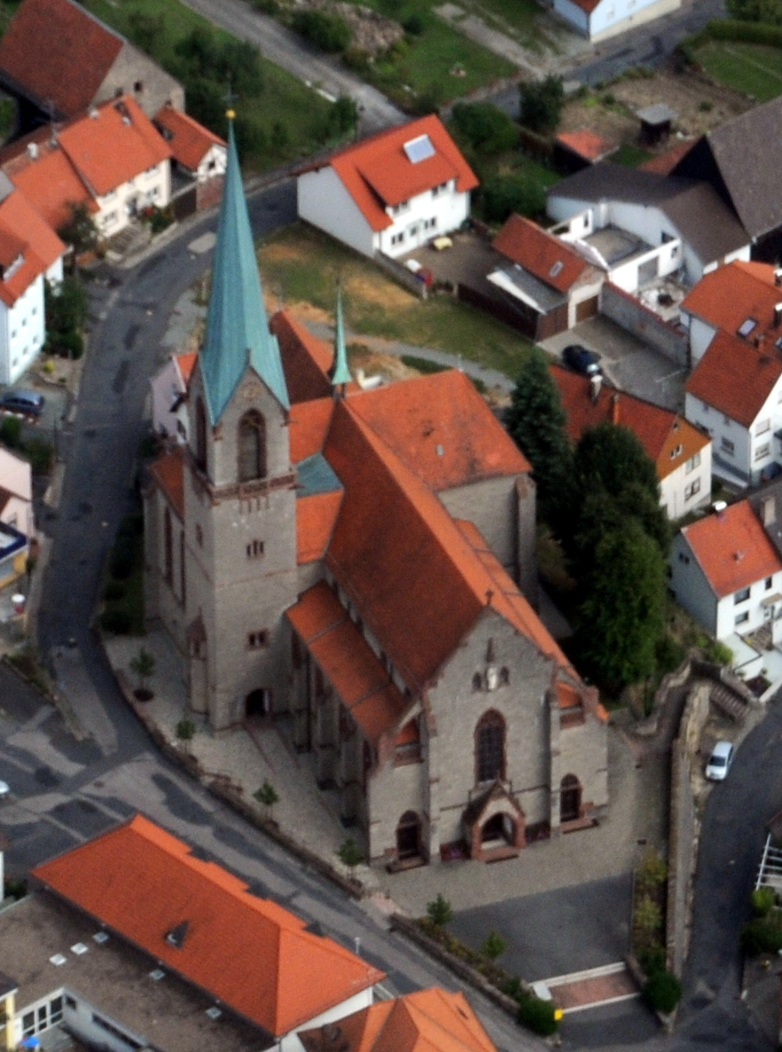 Höpfingen, Baden-Württemberg, Germany, aerial photograph